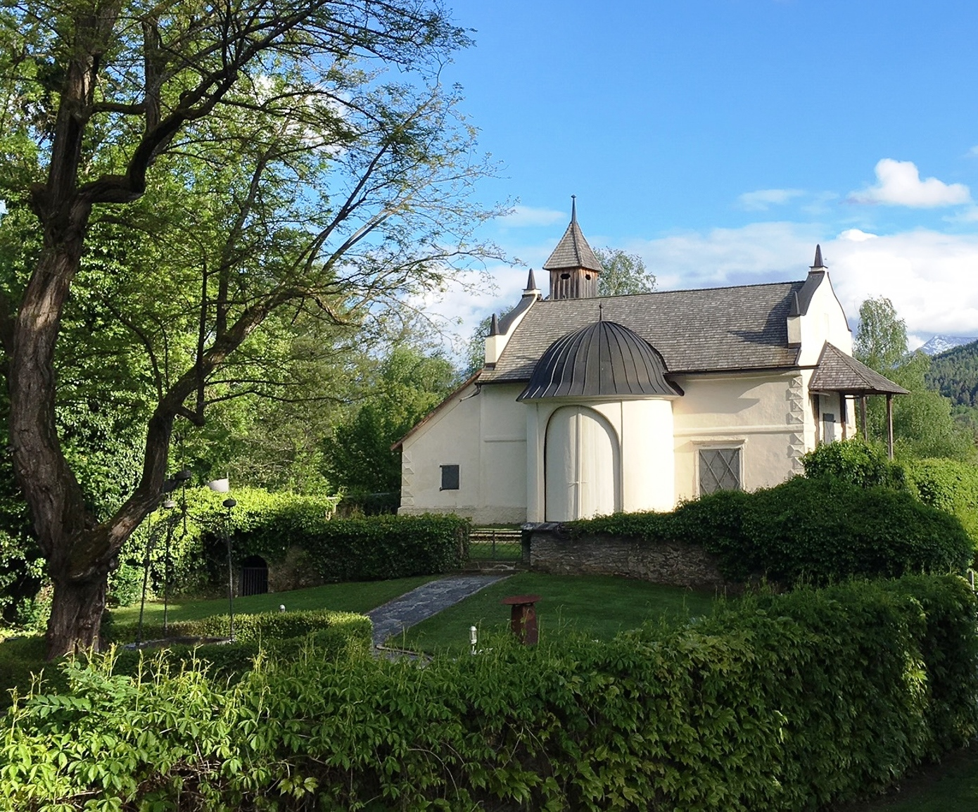 Maria Loretto Chapel in Klagenfurt, Lorettoweg, is a baroque small church with belfry in Carinthia, Austria, EU. It is an imitation of the Basilica Maria Loreto.